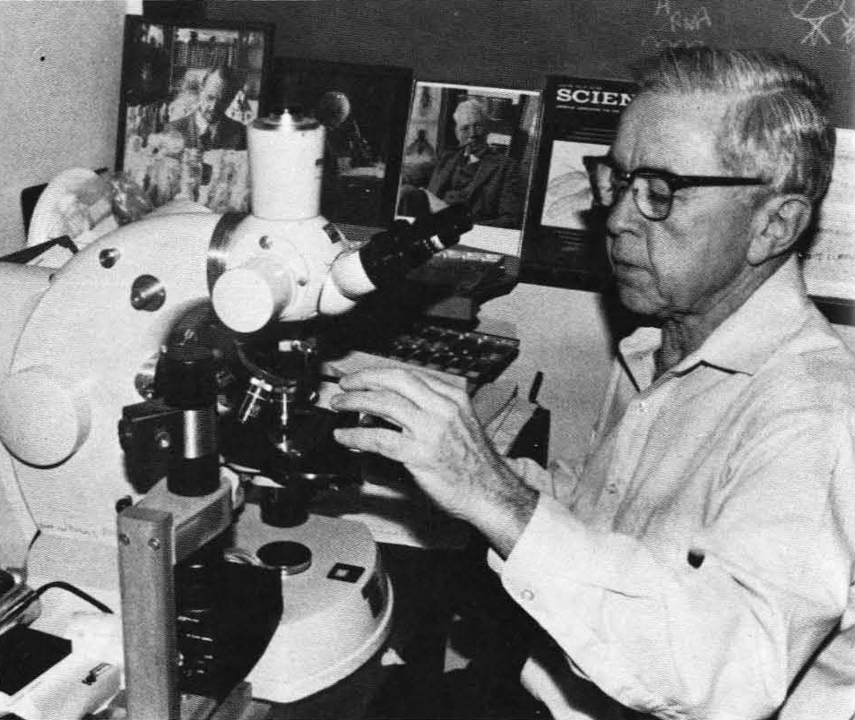 California Institute of Technology Professor Ed Lewis